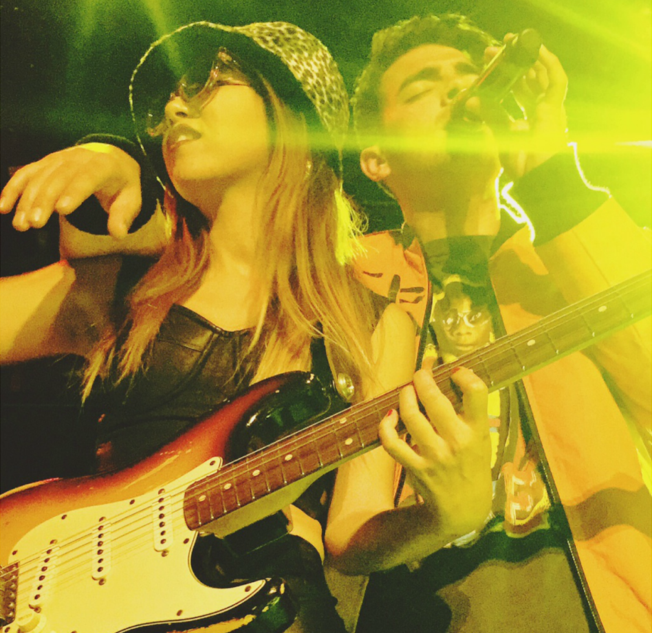 JinJoo and Joe Jonas on Stage.